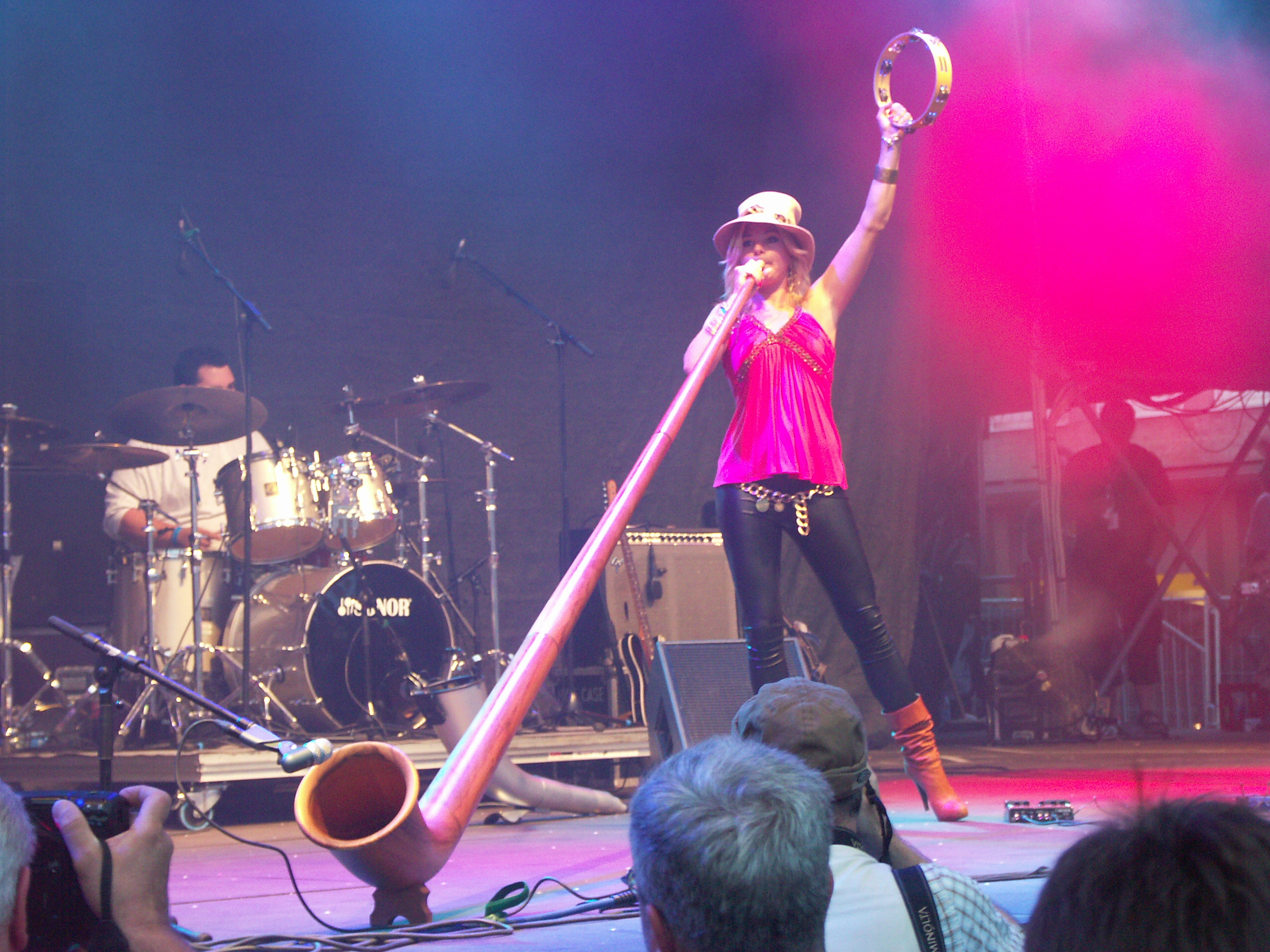 Eliana Burki (CH) playing the Alpenhorn at the "Bardentreffen" festival 2009 in Nuremberg / Germany, Hauptmarkt stage